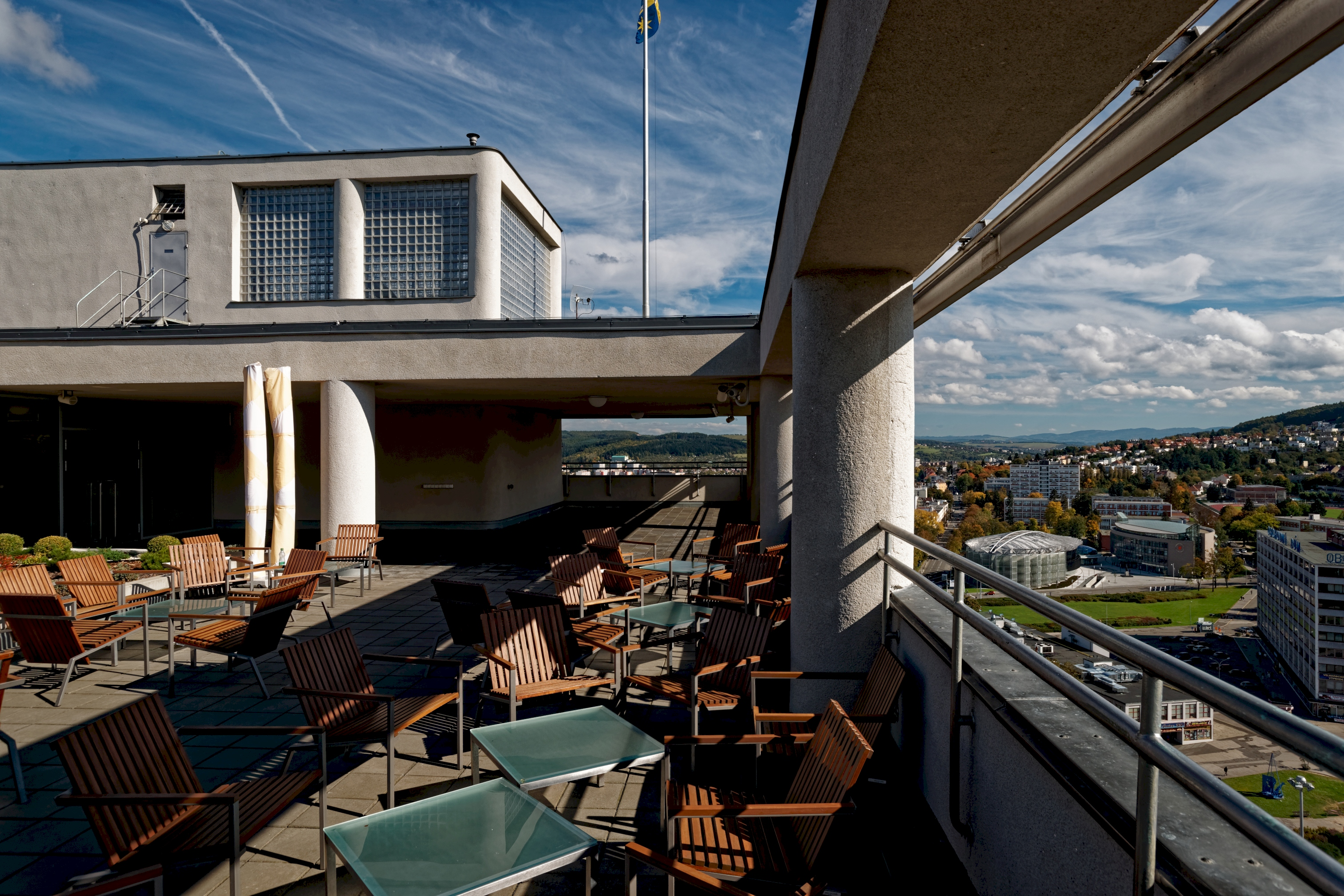 Zlín - Třída Tomáše Bati 21 - Baťův mrakodrap / Baťa's Skyscraper 1936-38 by Vladimír Karfík - 17th Floor - View ENE